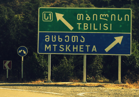 Road sign